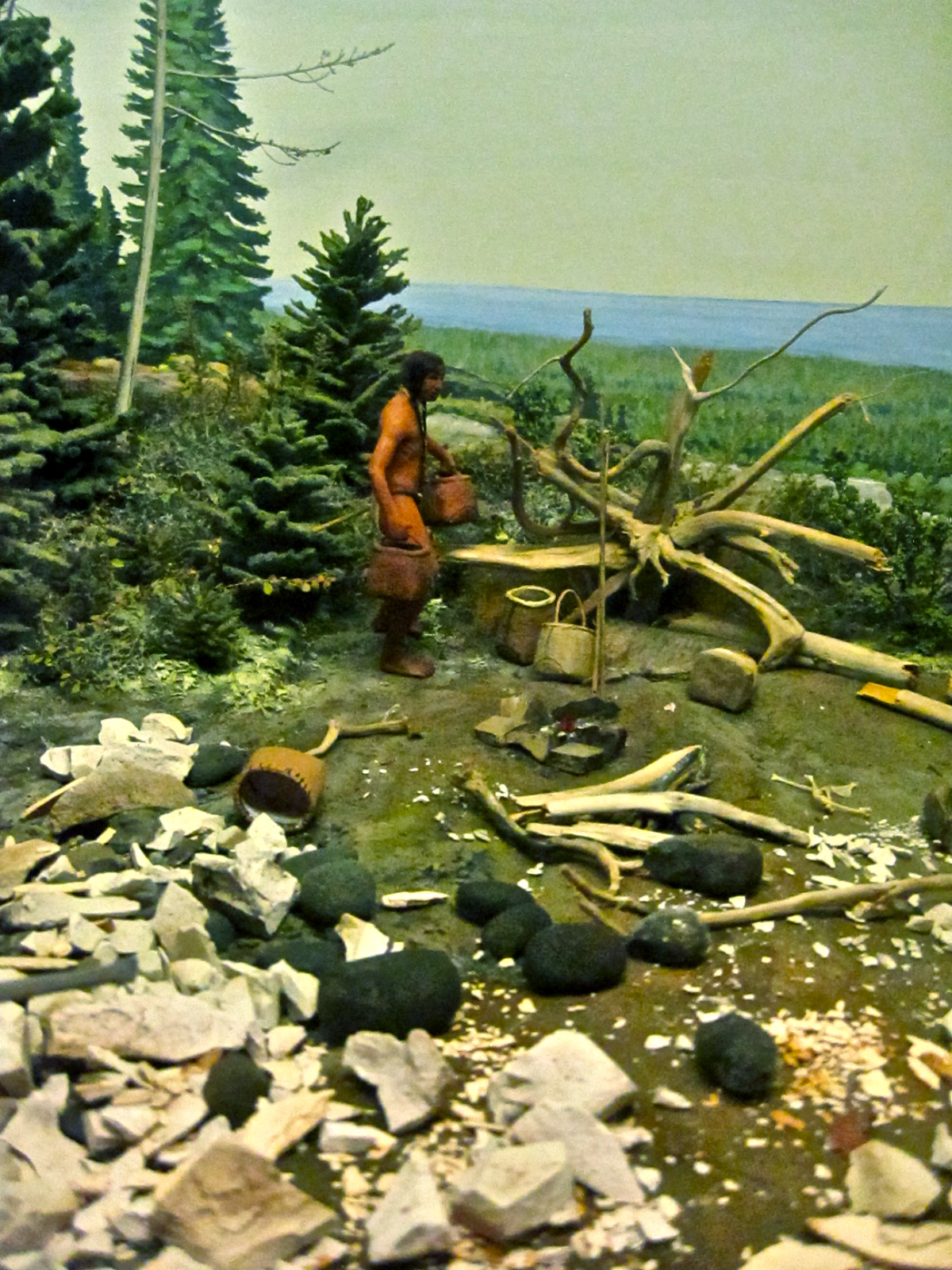 This diorama shows Anishanabe people mining copper near Lake Superior between 3000 BCE and 1500 CE. By 3000 BCE and continuing until at least 1500 CE, Native Americans mined naturally-occuring copper on Lake Superior's Isle Royale and the Keweenaw Peninsula. Ancient copper miners used large stones as tools to crush the rock surrounding the natural deposits. Ancient copper mining pits are still visible today. Credits Dioramas in the Exhibit Museum of Natural History created by Dr. Robert S. Butsch, a zoologist and museum preparator for the Museum in Ann Arbor, Michigan. These dioramas are being removed from view by the museum.